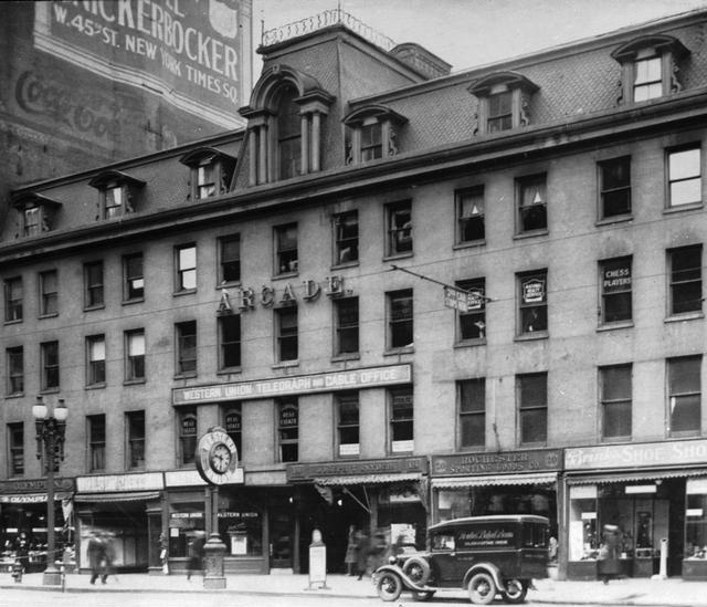 A view of the first Reynolds Arcade building on Main Street, showing signs, automobiles and pedestrians. The building was the site of the post office from 1829-1891, and Western Union and Bausch & Lomb had their starts here. Numerous shops and offices were located at the arcade and many thought of it as a town within a town. This view shows the arcade shortly before it was demolished in May of 1932. It was replaced by a new Art Deco office building, also named Reynolds Arcade.